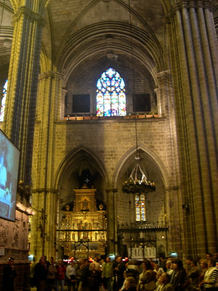 Sant Josep Oriol chapel and Sant Pancraç i Sant Roc chapel in cathedral of Barcelona